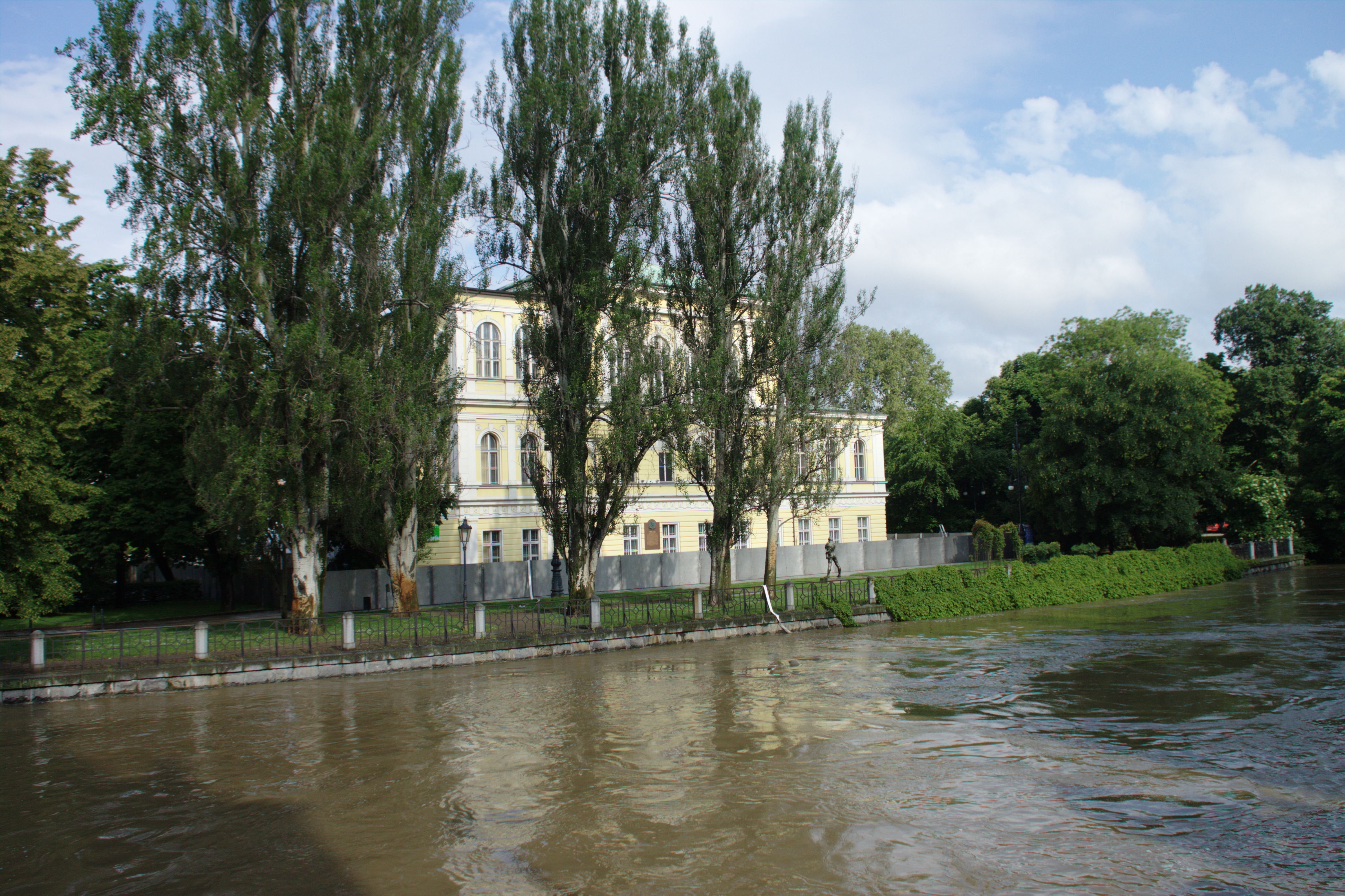 2013 Vltava flood in Prague, CZ